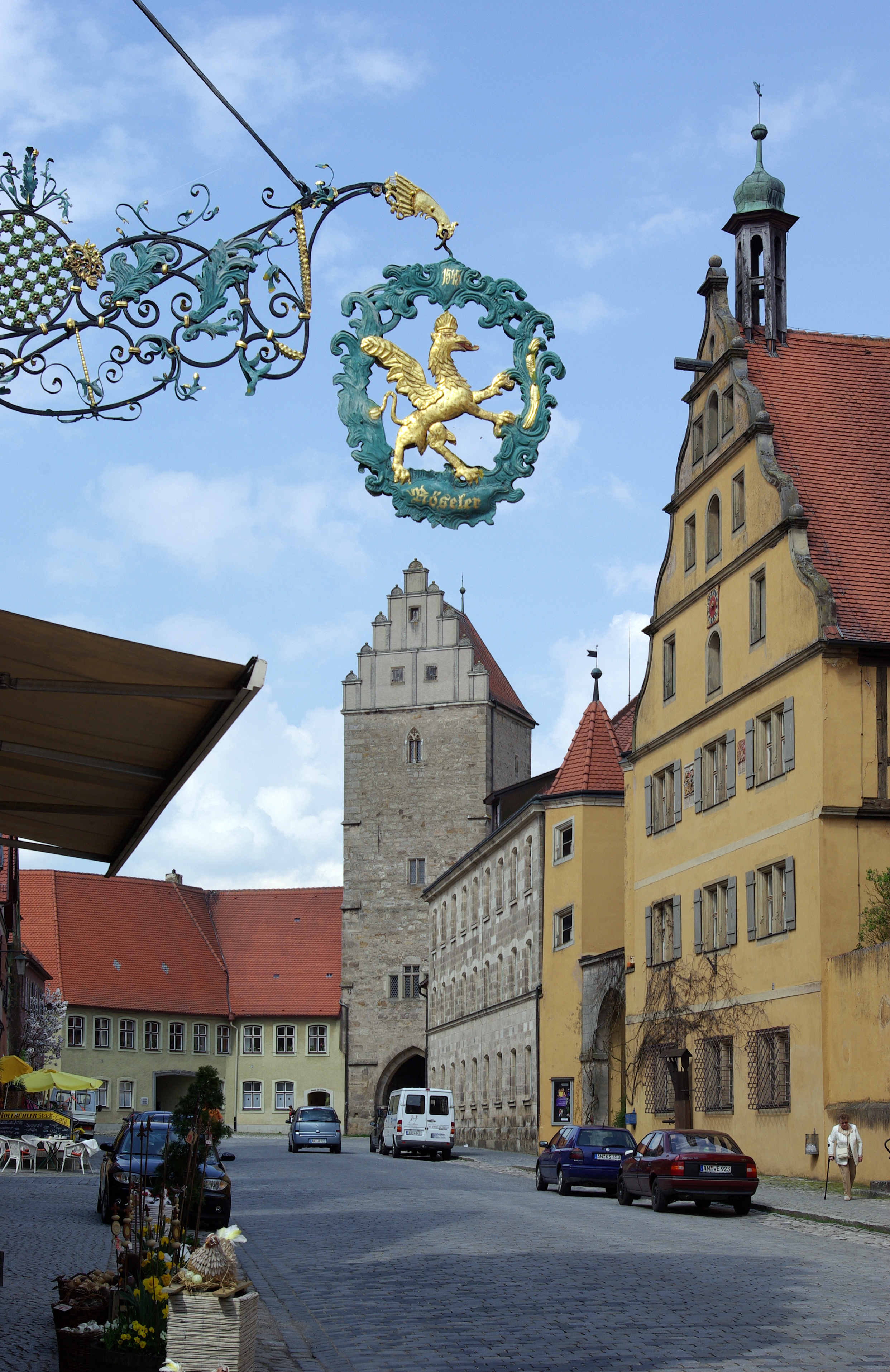 Germany, Dinkelsbühl, Martin Luther Street